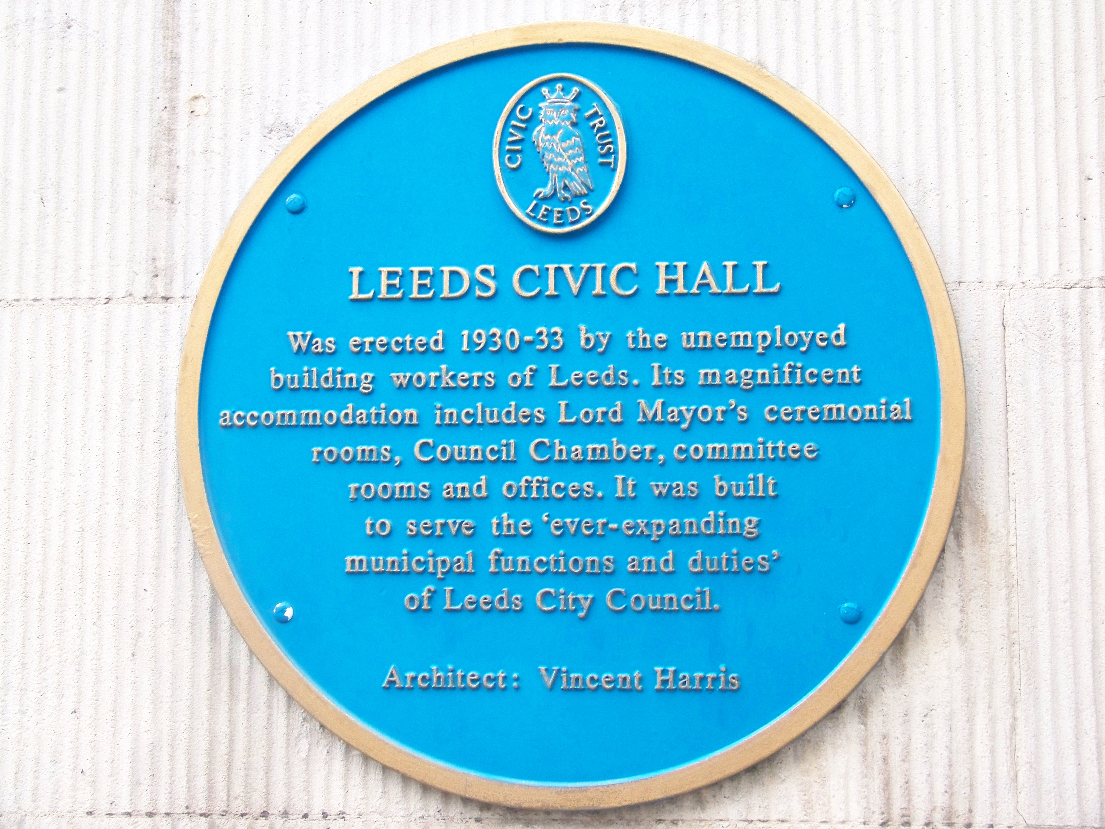 Blue plaque at Leeds Civic Hall. Taken on the afternoon of Saturday the 23rd of January 2010.